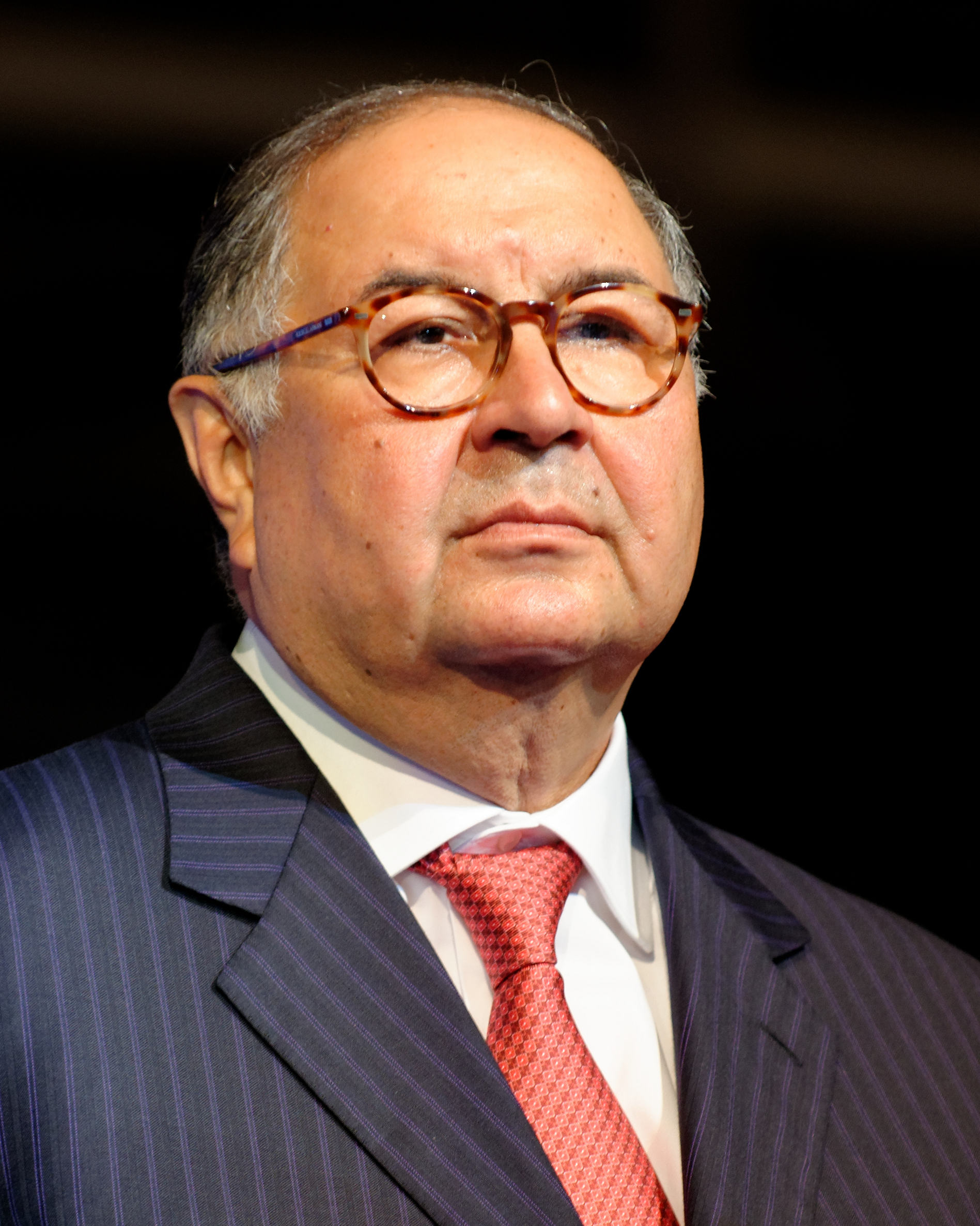 Alisher Usmanov takes part in the men's sabre victory ceremony of the 2013 World Fencing Championships 2013 at Syma Hall in Budapest, 10 August 2013.